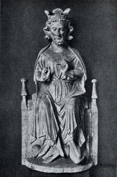 Statue of Saint Olaf, from Brunlanes Church in Vestfold. From the 13th century.